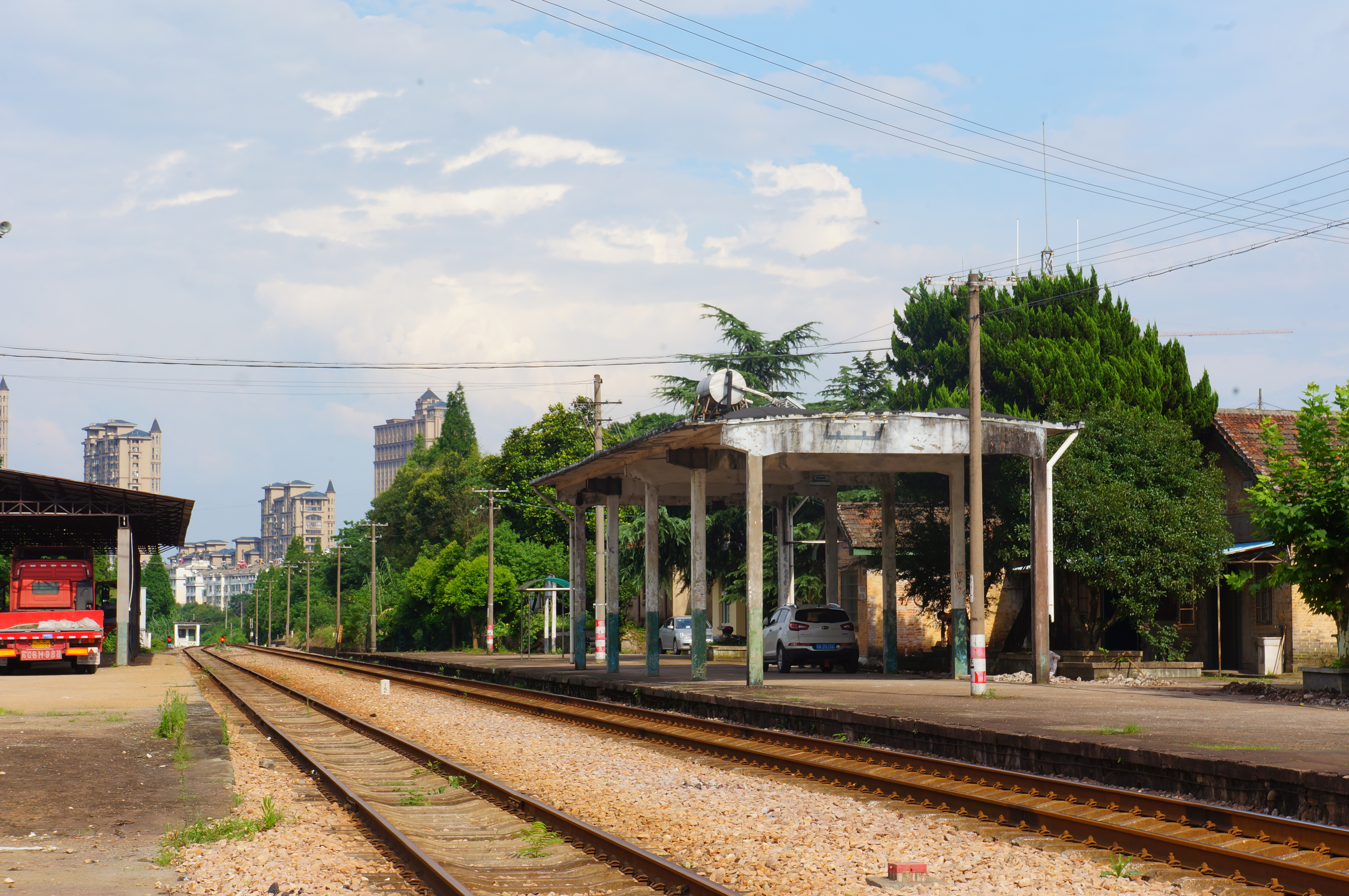 201707 Tracks at Xixi Station Jinhua Direction. There is a little canopy on the platform 1... and suddenly the sun comes out!!!